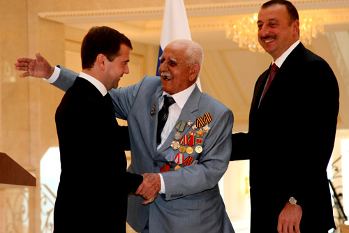 BAKU. Dmitry Medvedev awarded Great Patriotic War veteran and citizen of Azerbaijan Agadadash Samedov the Order of Glory 2nd and 3rd degree. On the right, President of Azerbaijan Ilham Aliev.